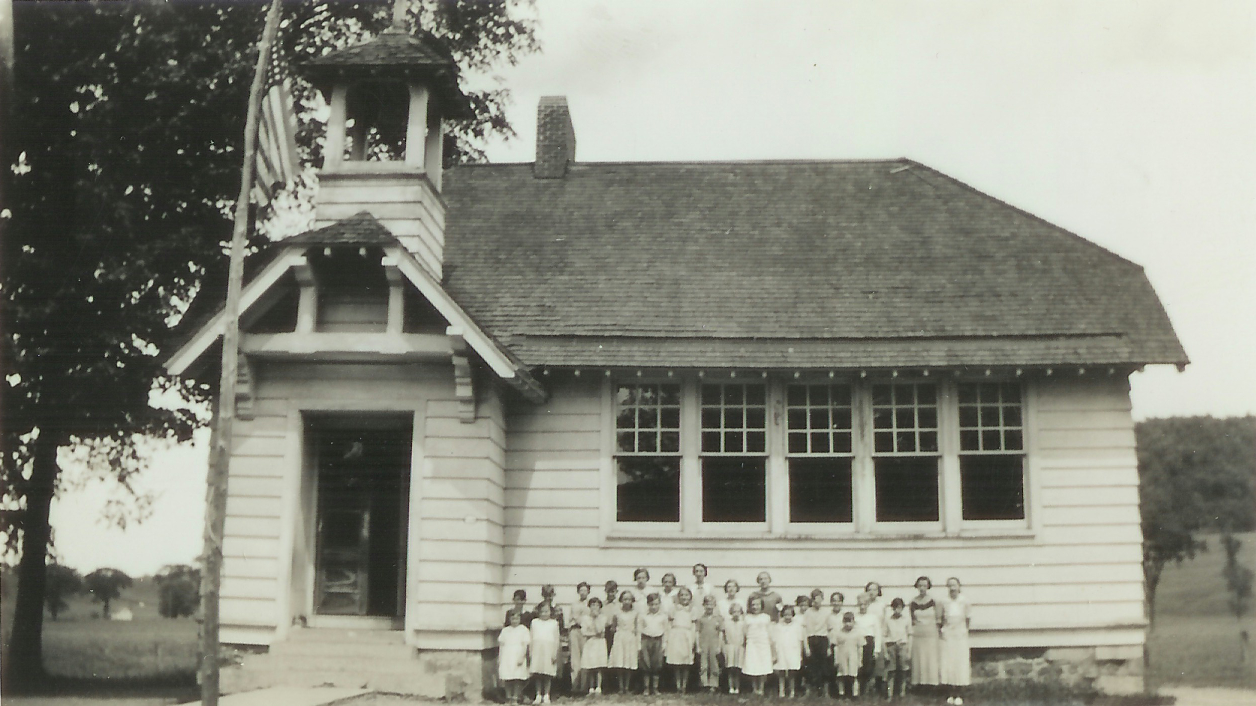 West Edmeston School, Edmeston NY District